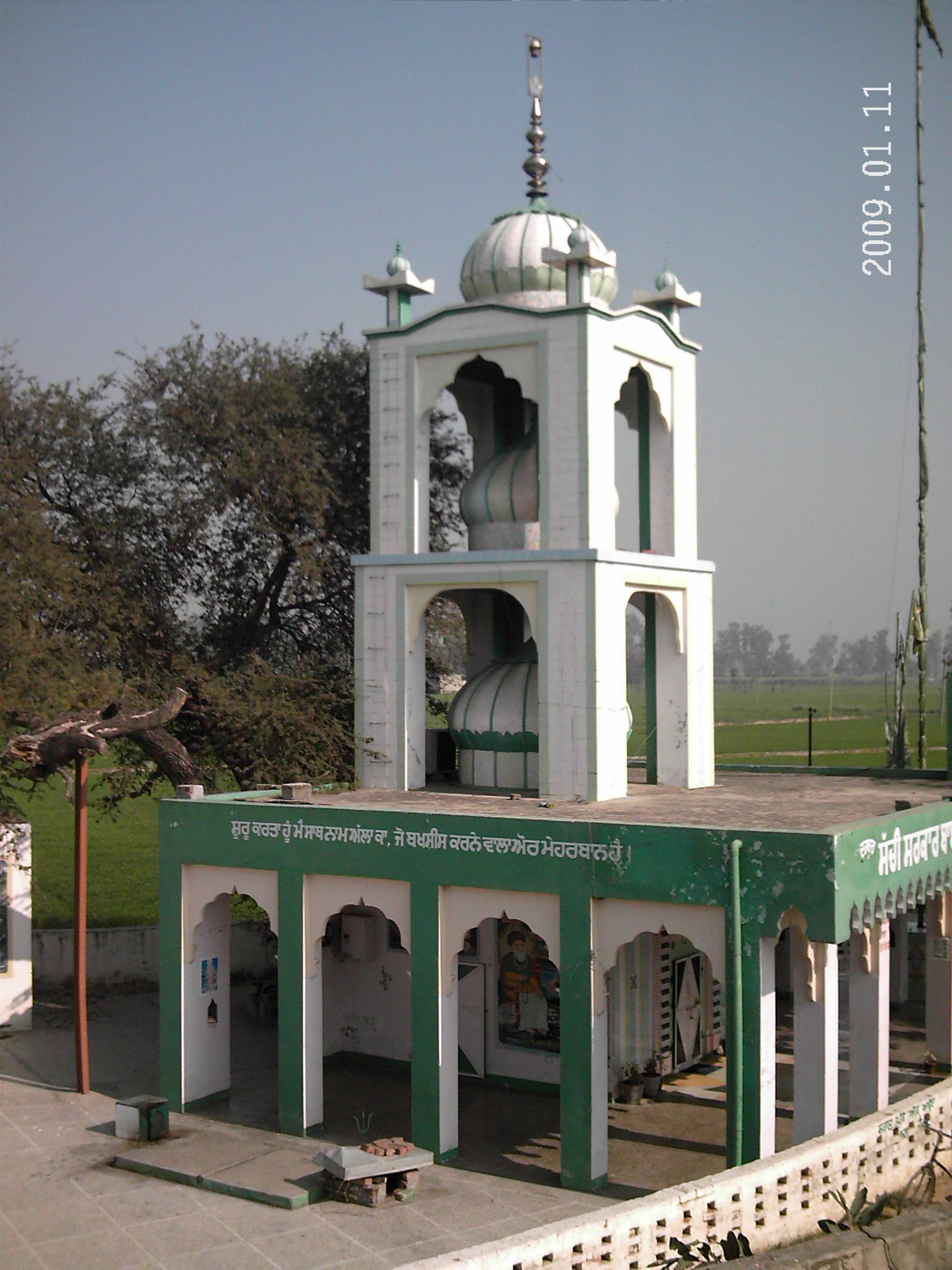 Temple of Baba Bhole Peer